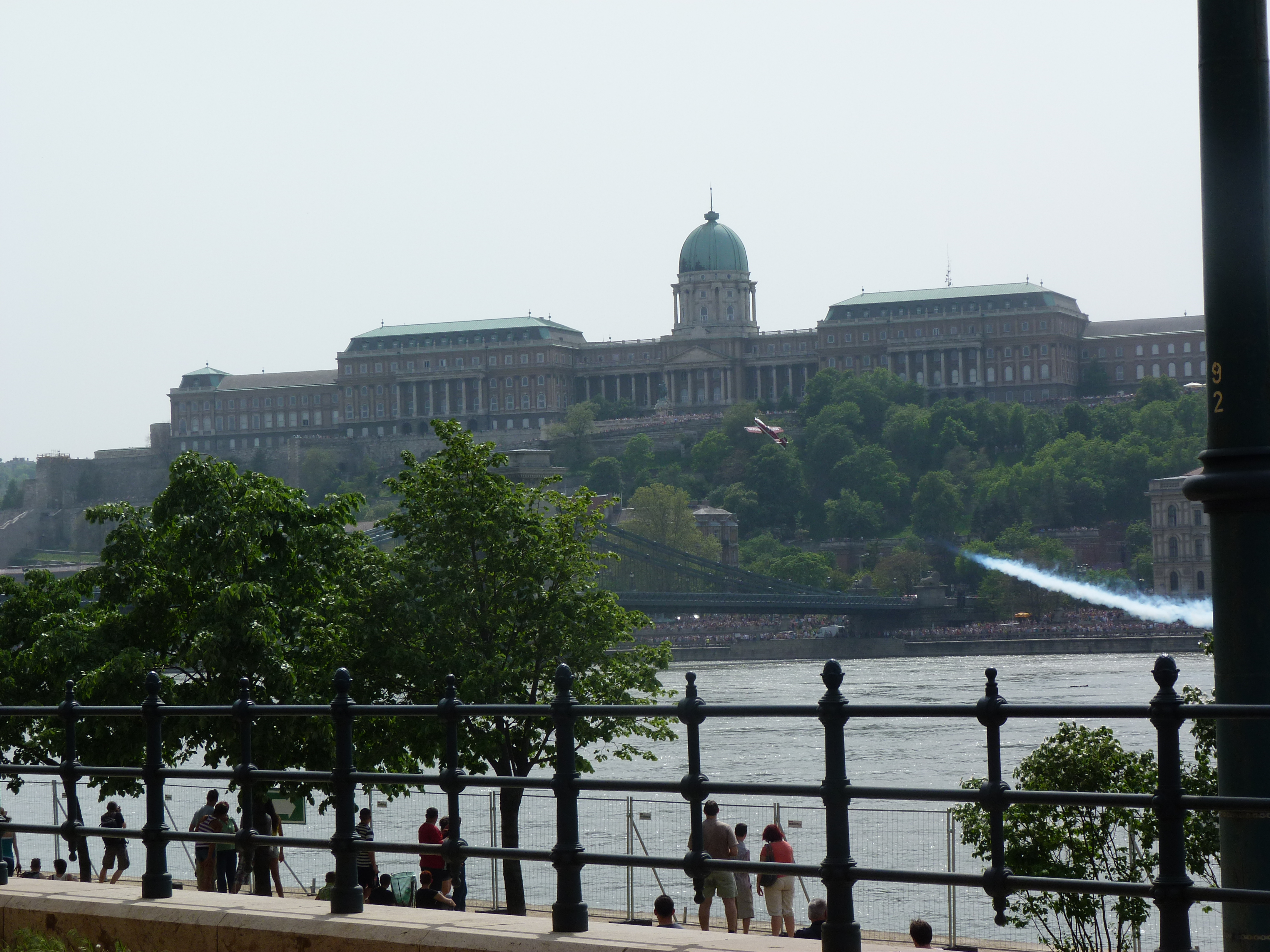 Live on the 1st of May, 2013. Budapest. Air Show. Besenyei Péter at the Royal Castle. ©© Derzsi Elekes Andor, Budapest, 2013, You are authorised to use these photos and vids under Creative Commons – even for commercial, for profit purposes. Photos must be attributed to Derzsi Elekes Andor. All of the photos and vids in the Metapolisz DVD line are under Creative Commons and can be used even for commercial – for profit – purposes. Recommended Citation Derzsi Elekes Andor: Metapolisz DVD line A felvétel 2013. Május 1 –én készült Budapesten. Repülő bemutató. Besenyei Péter. Források: Besenyei Péter új gépe Tóth Norbert